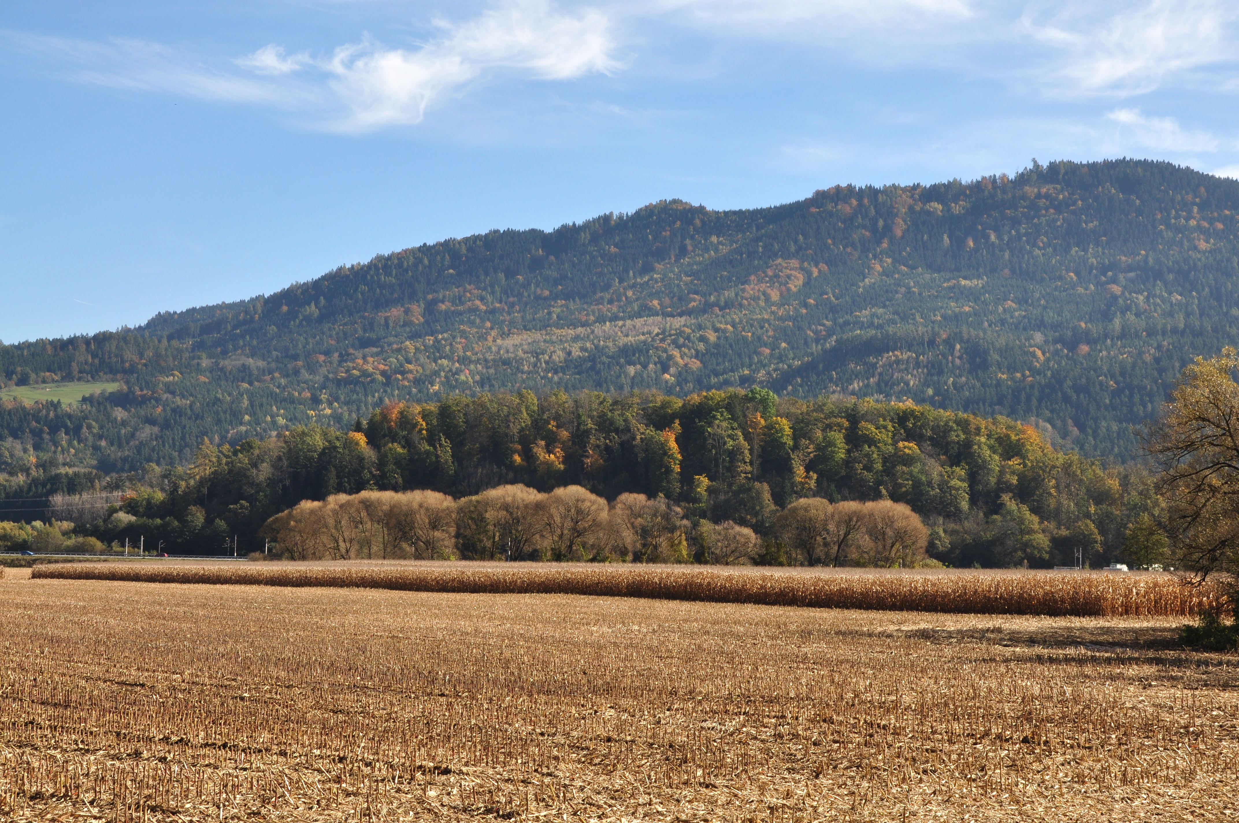 Ancient Roman hill-top settlement on the Gratzer ballon at St. Donat, municipality Sankt Veit an der Glan, district St. Veit an der Glan, Carinthia / Austria / EU